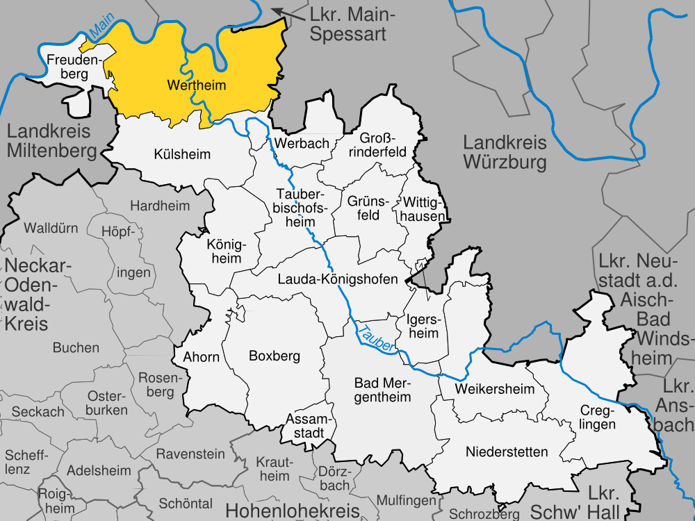 position of Wertheim within the Main-Tauber-Kreis, Baden-Württemberg, Germany